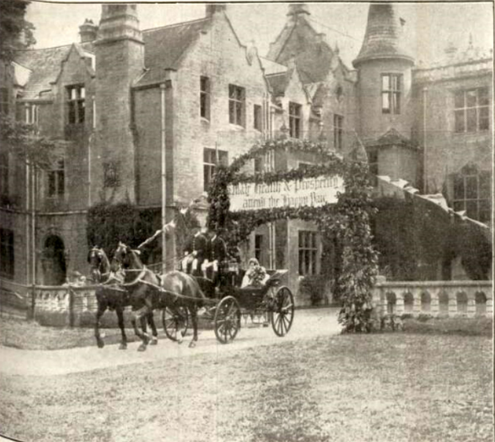 Silvia Duckworth leaving Orchardleigh on the way to her wedding 1924